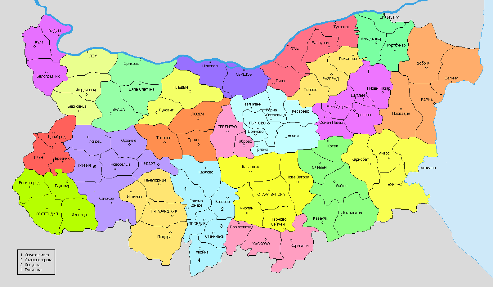 Territorial divisions of the Principality of Bulgaria (1885-1901)